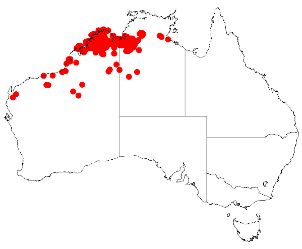 Acacia translucens Occurrence data from Australasia Virtual Herbarium downloaded from on 8 December 2018